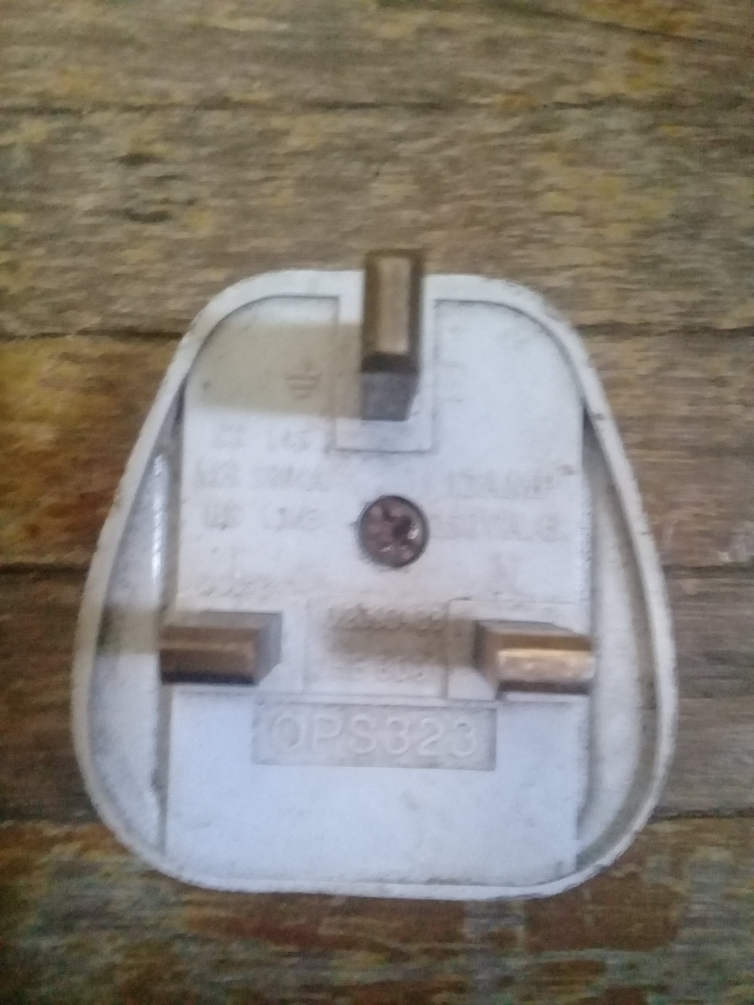 This photo is my own work. This plug is widely used ini Malaysia,Singapore and some other countries